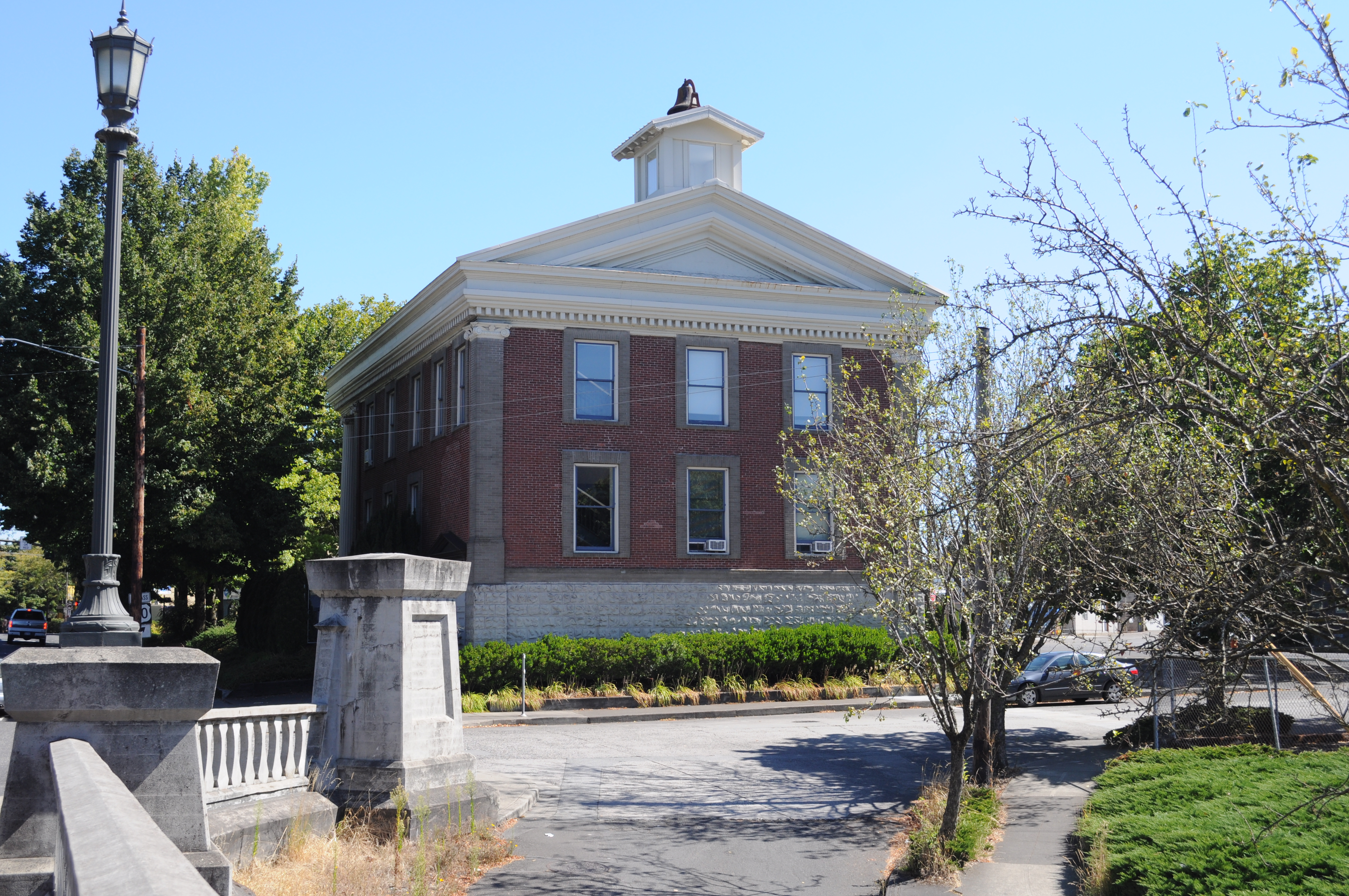 Rear view of North Precinct, Portland, Oregon. Formerly city hall of St John's, which is now a Portland neighborhood.